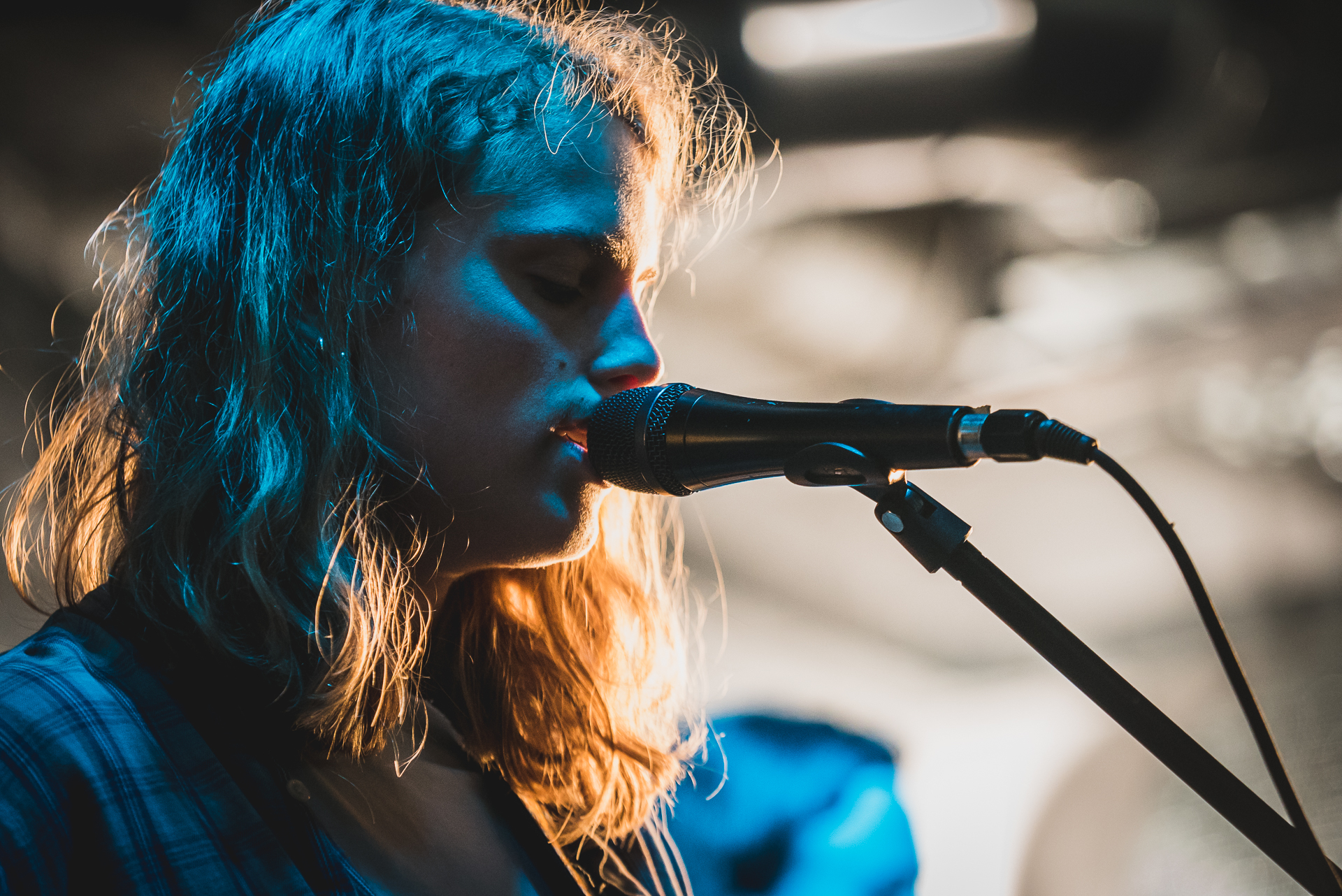 Marika Hackman at Rough Trade